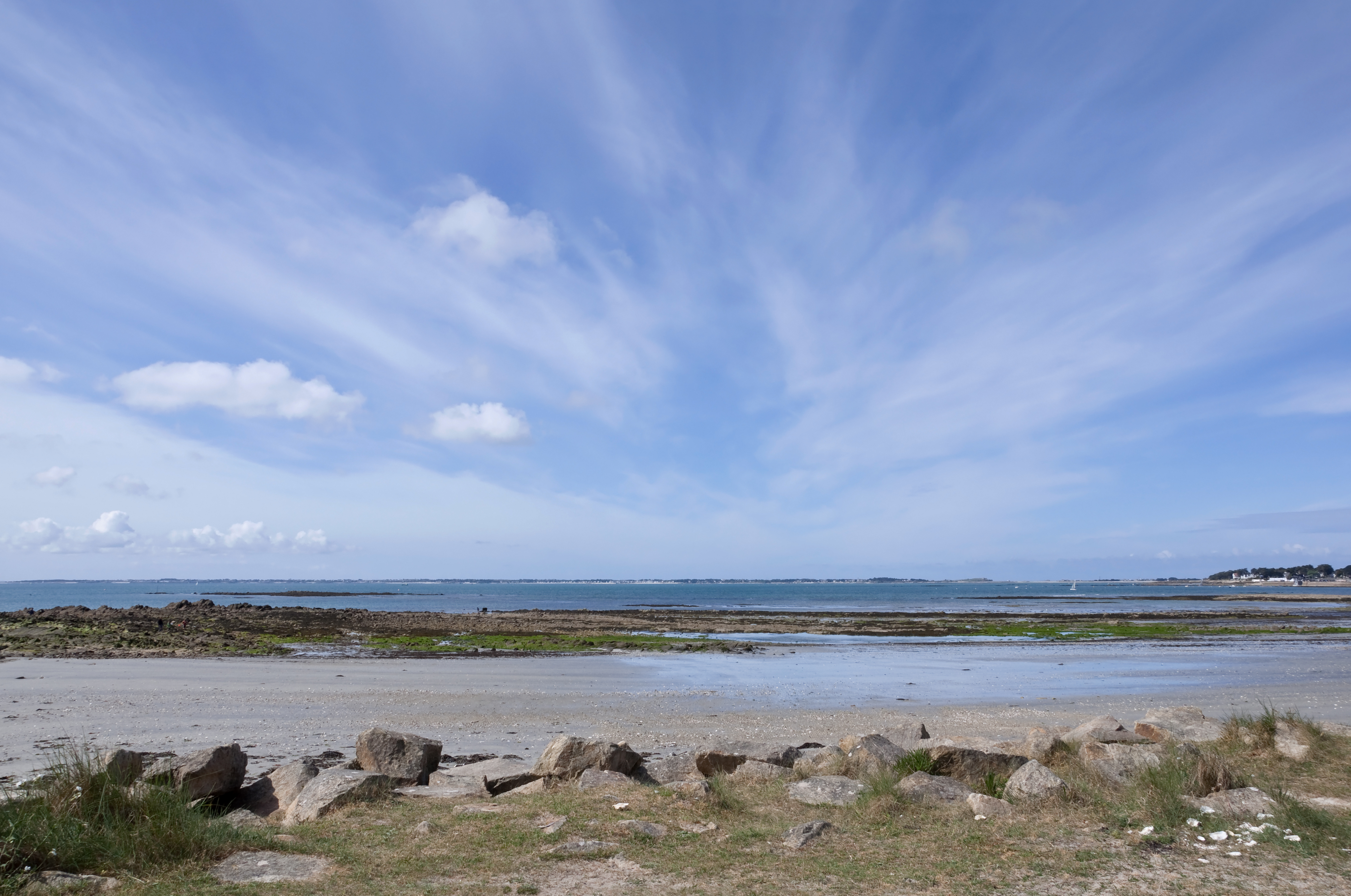 Sky and sea shore at Carnac, along the coast of Quiberon Bay (Morbihan, Brittany, France).